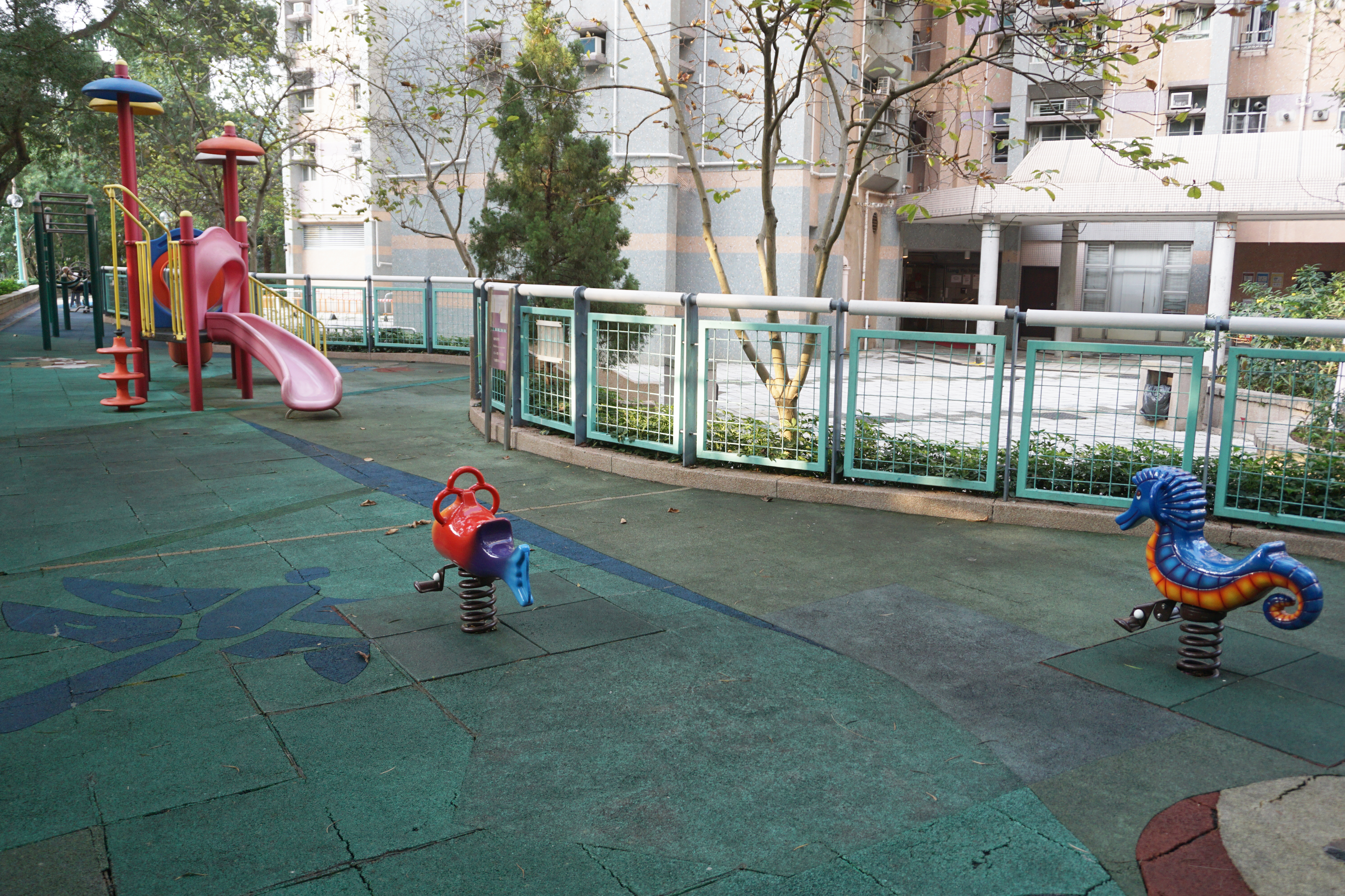 Kam Lung Court in Wu Kai Sha, Hong Kong.